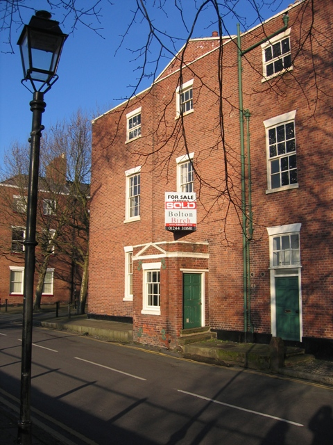 Sedan House This Georgian house on City Walls Road has a rare sedan porch, which has a door on each side. The sedan chair would be carried into the porch allowing the owner to alight out of the weather.